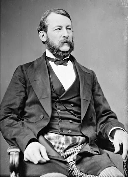 This image was found at: It has been edited in the GIMP to make it acceptable for use on Wikipedia.